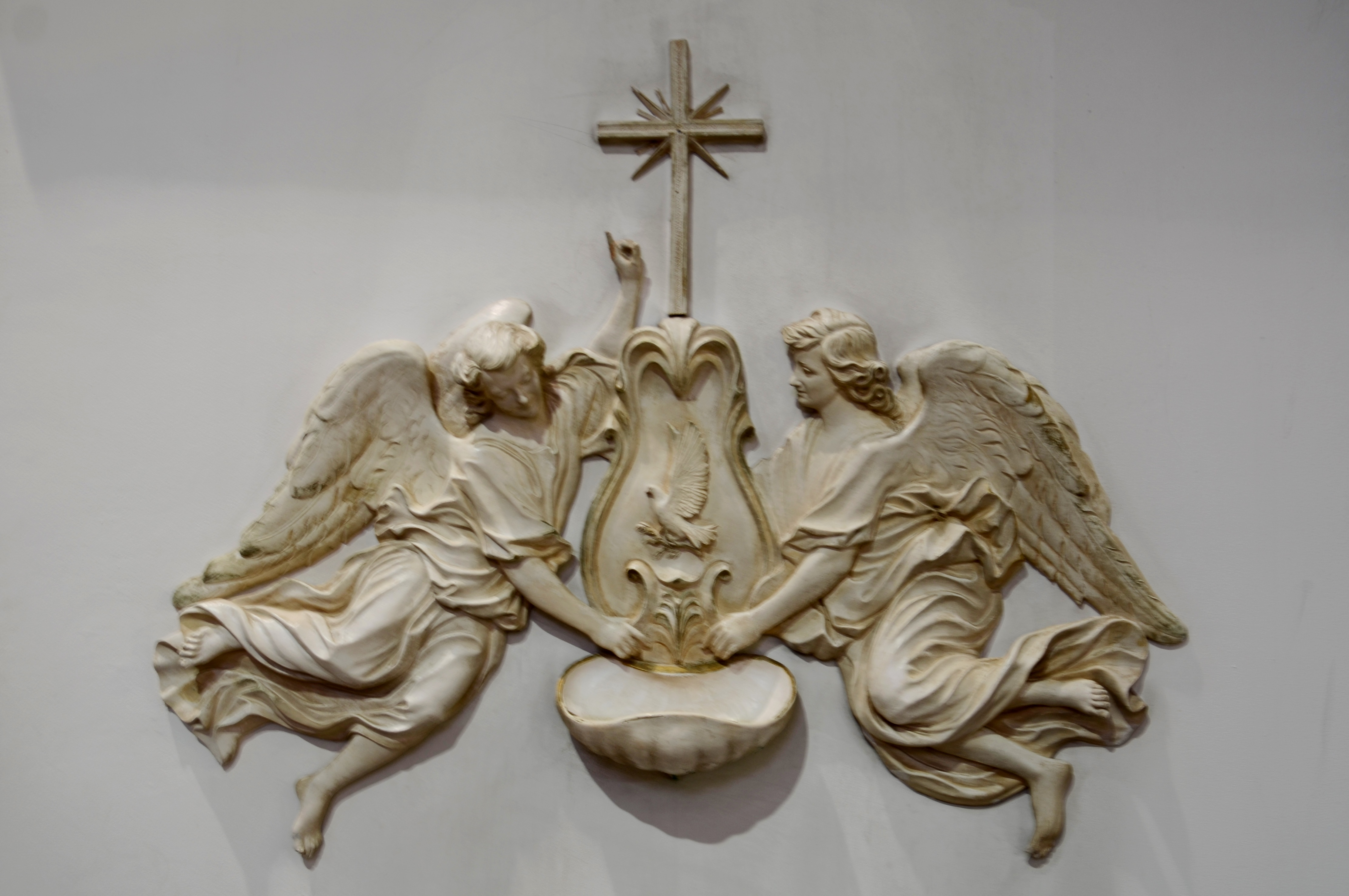 Relief of sculptor Eugeny Kolchev in Red Church in Minsk, Belarus